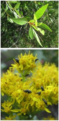 Solidago and Narrowleaf cottonwood, taken by Jamie Lamit, Uploaded Oct7, 2013.